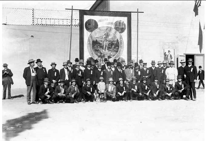 The image is a photograph of a group of members of the Barrier Branch of the Federated Iron Brass and Steel Moulders Union of Australia standing in front of their union's banner, ca. 1919.